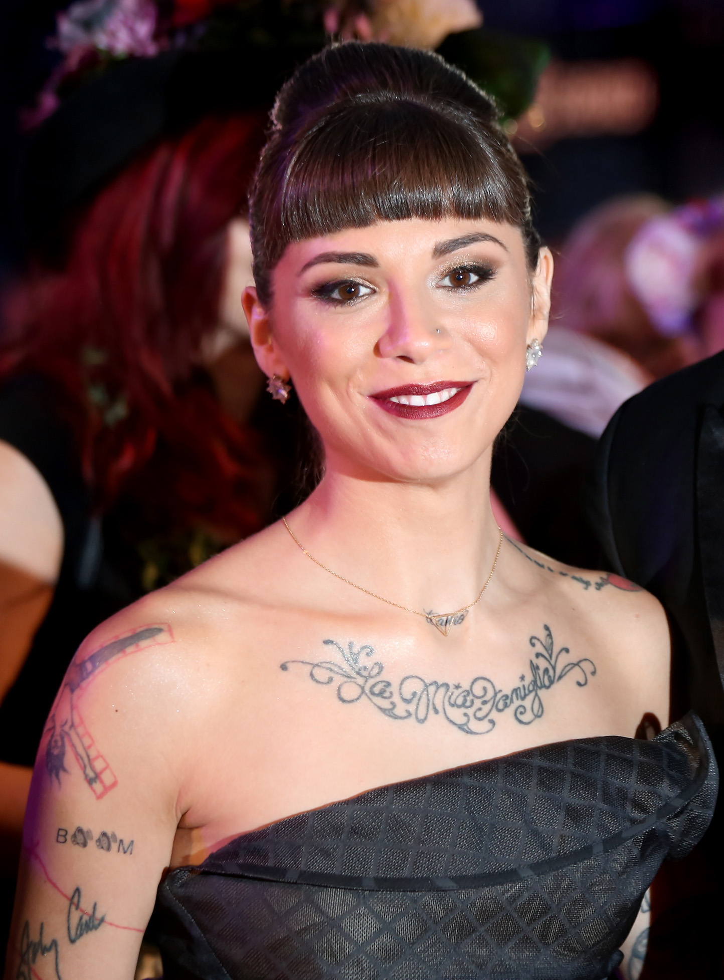 Life Ball 2014: Christina Perri on the red carpet on the square in front of the Rathaus (Town Hall) of Vienna, Austria.